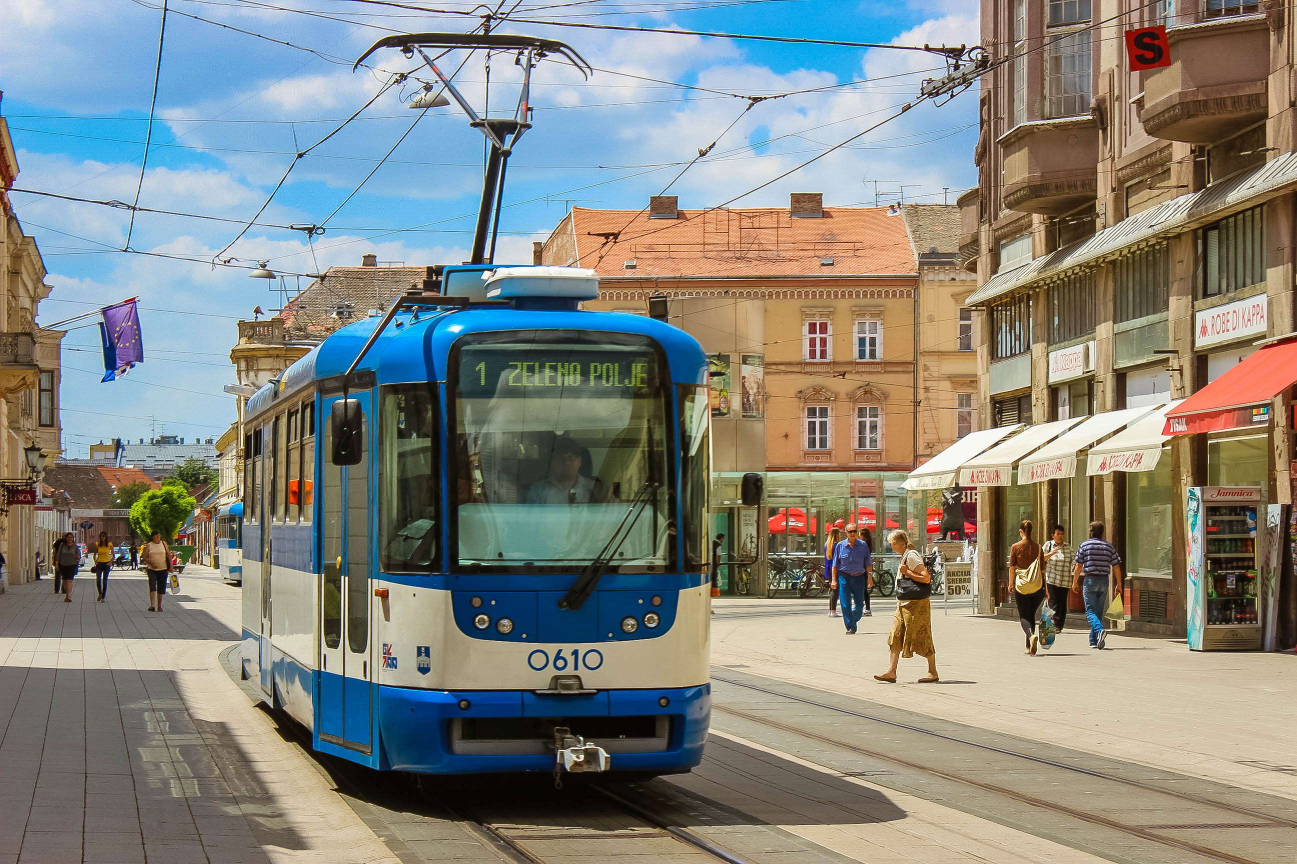 Public transport